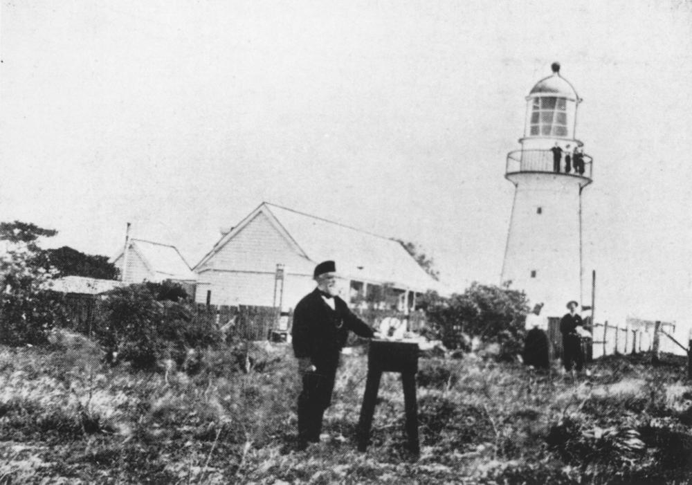 Lighthouse keeper, M. J. Rooksley at Bustard Head, Queensland, 1902